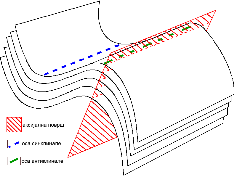 scheme for fold geometry in Serbian